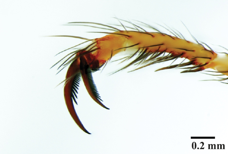 Trogloraptor marchingtoni, hooked claws on tarsus I of male